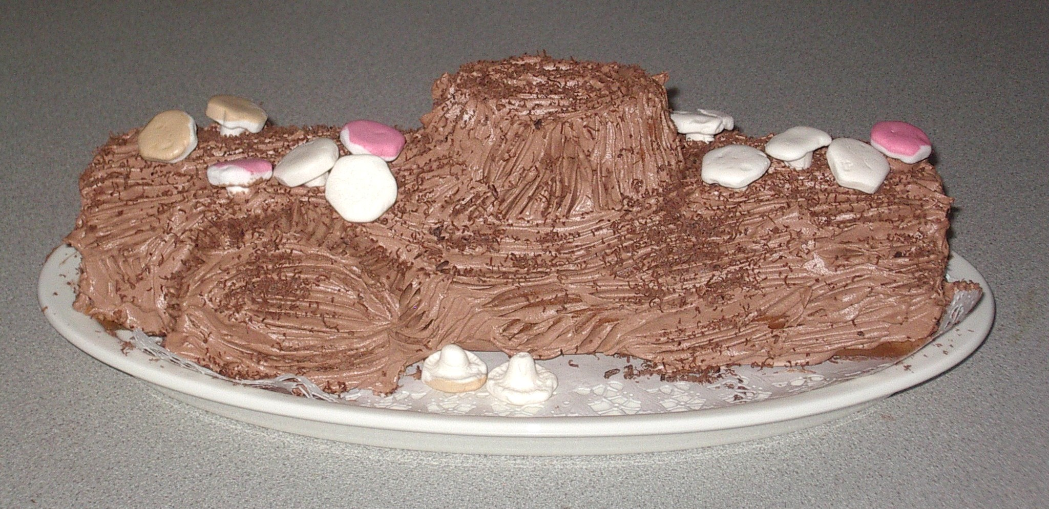 A bûche de Noël with decoration. See also Image:Buchedenoel.jpg.